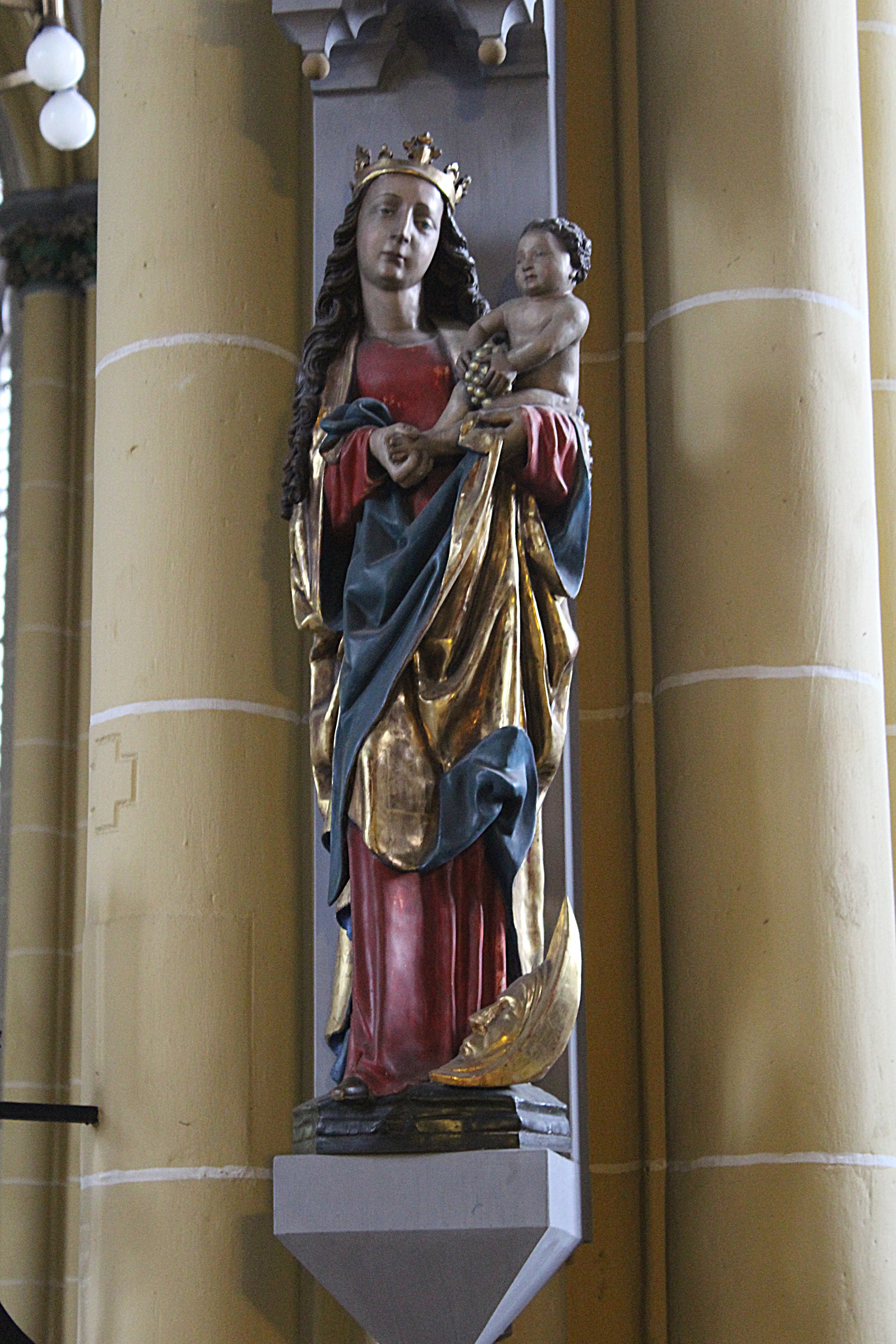 Saarburg, church St.Laurentius, Marie figure